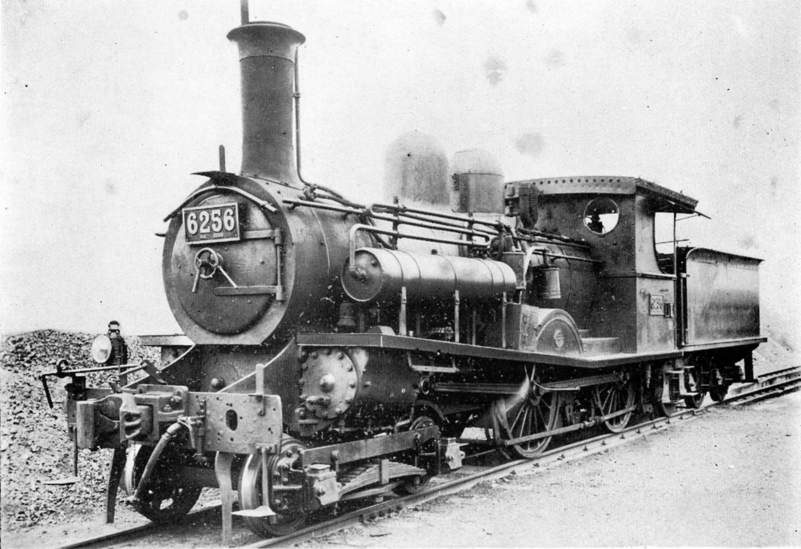 Picture of JGR's 6250 type steam locomotive